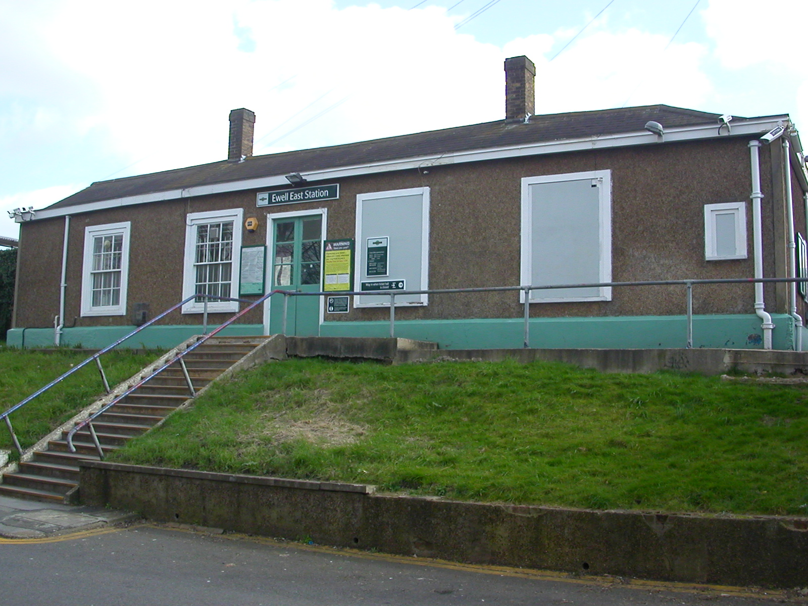 Main station building at Ewell East railway station, Surrey.